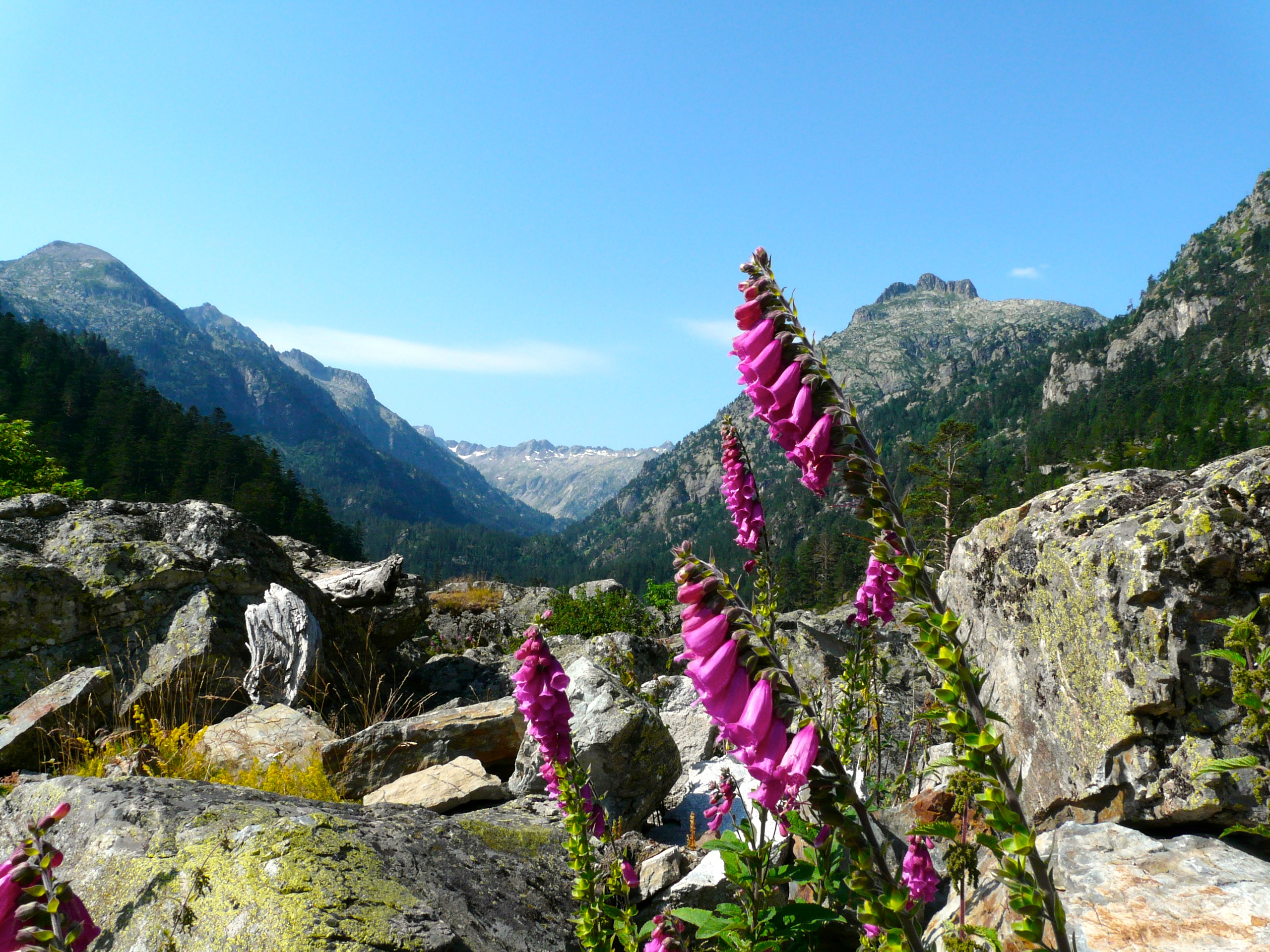 Valley of Marcadau in french Pyrenees, commune of Cauterets, department of Hautes-Pyrénées (France) : Digitalis purpurea (Common Foxglove) in flowers beginning of August, in a semi-acid soil at the sub-alpin stage (altitude of 1650 m)